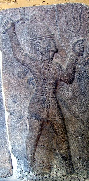 God of Thunder. Hittite relief from Samal (now Zincirli). Pergamonmuseum, Berlin